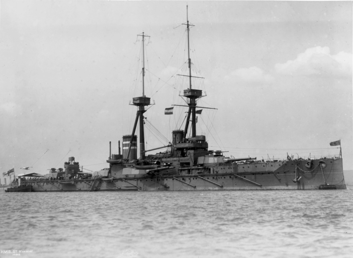 St Vincent at anchor, before 1912. Cropped version of the original.